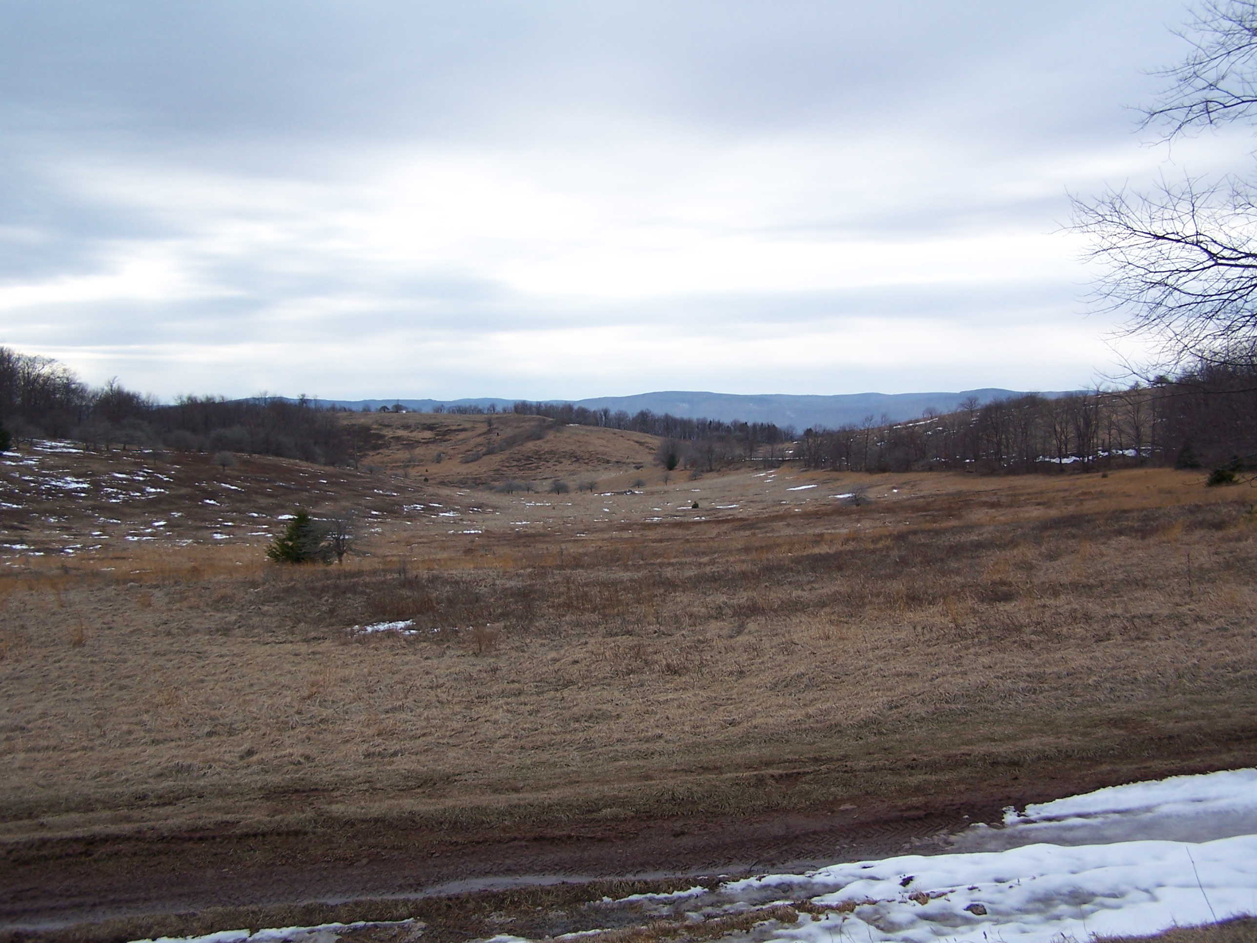 Battlefield from the Battle of Camp Allegheny (American Civil War) in Pocahontas County, West Virginia.